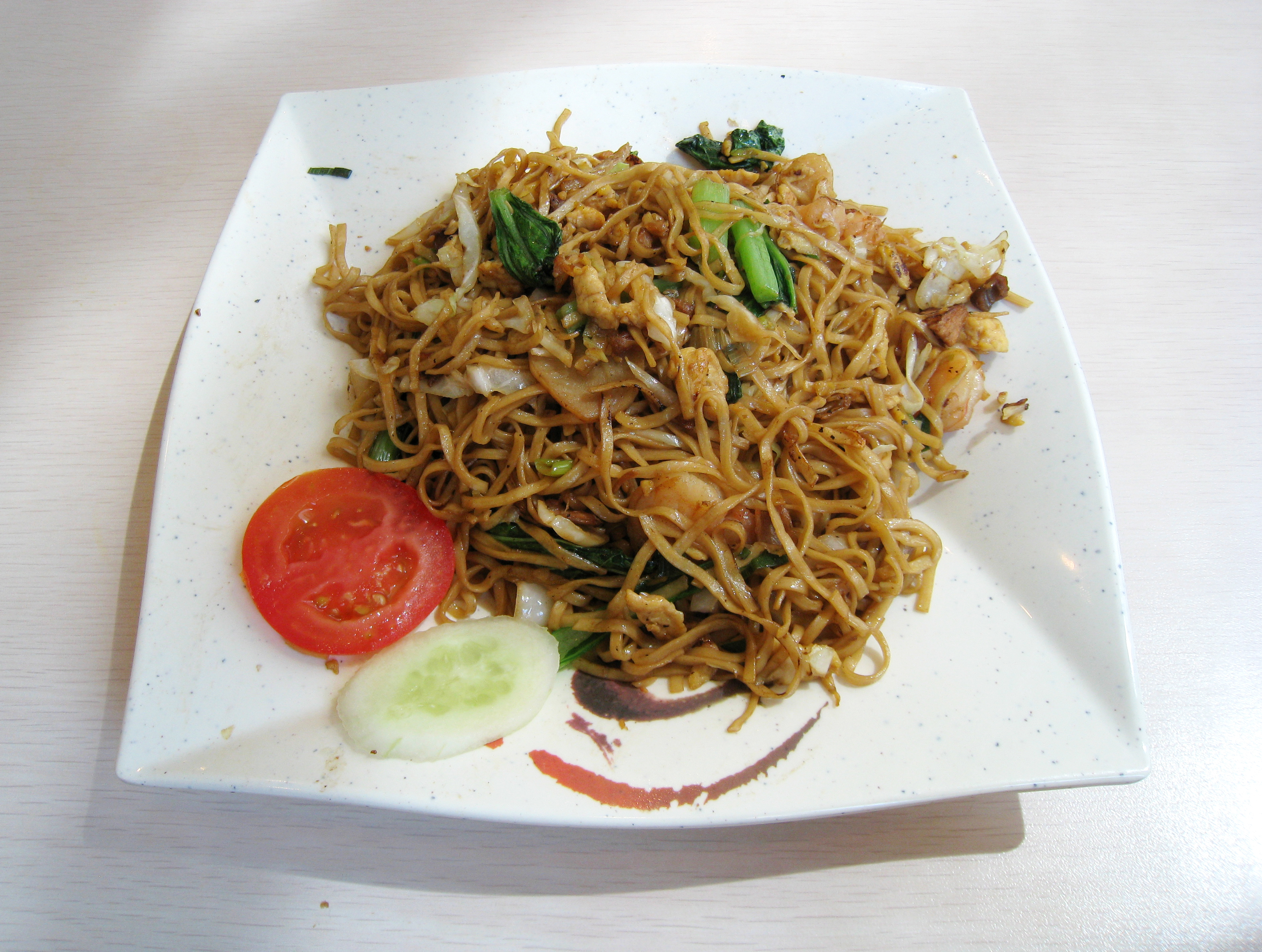 Mi Goreng (fried noodle) Gajah Mada, Jakarta, Indonesia.